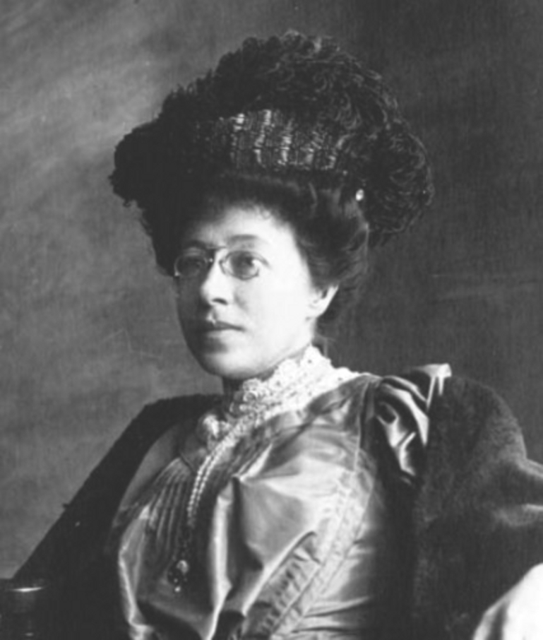 Studio photograph of Mărgărita Miller Verghy, the Romanian feminist writer.